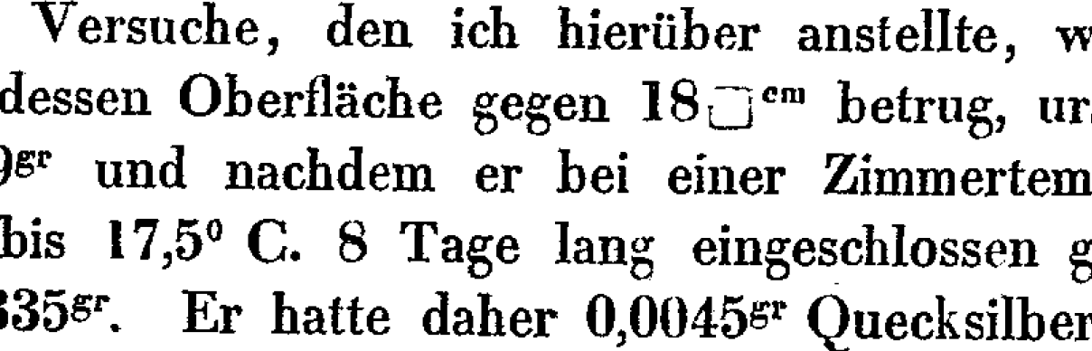 historic expression "18 square centimetre" in the Annalen der Physik, printed in 1869